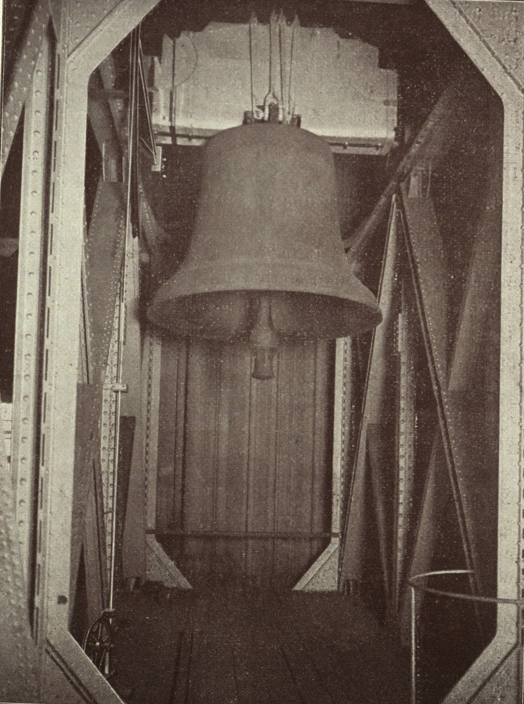 Cologne Cathedral: Pretiosa bell, 1909.